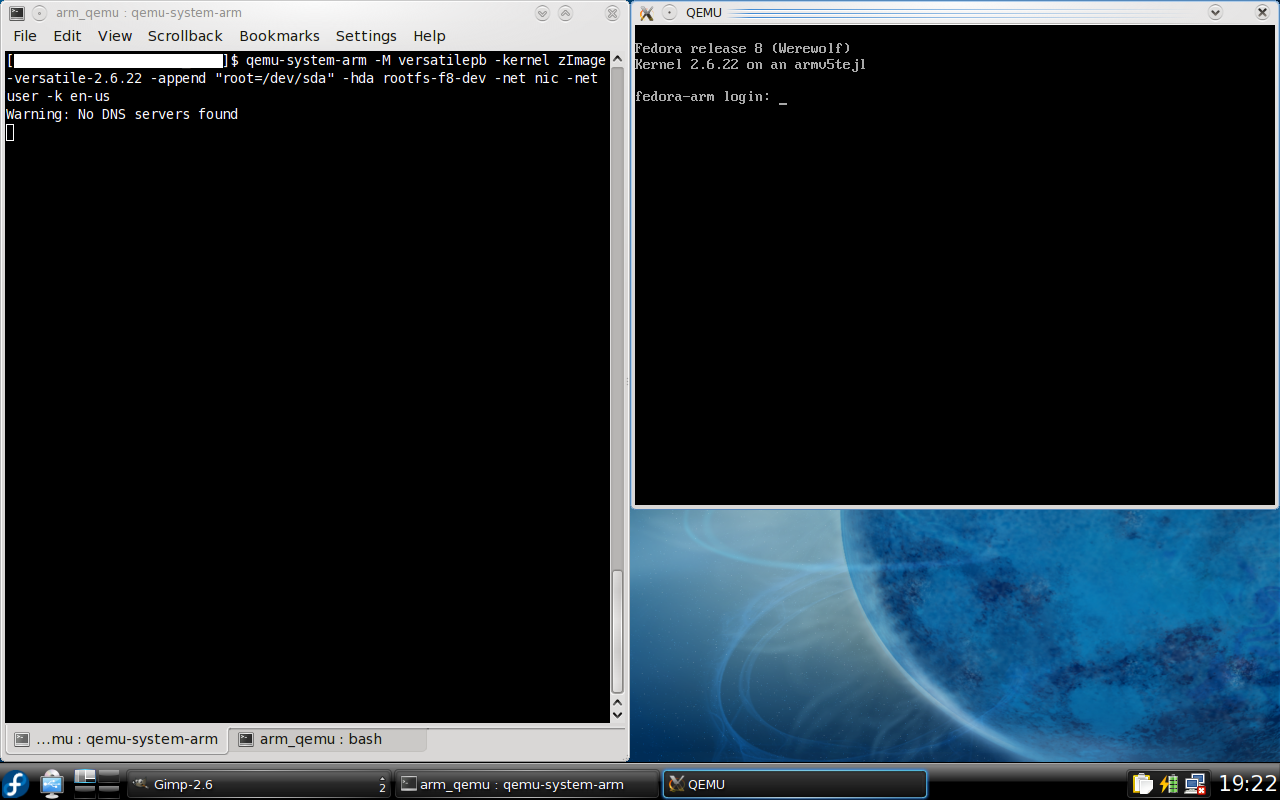 ARM port of Fedora 8 booted on QEMU emulator running in Fedora 10. QEMU supports upto ARMv5TEJ architecture. The Versatile/PB board is emulated.